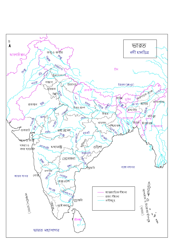 Rivers Of India Map in Bengali